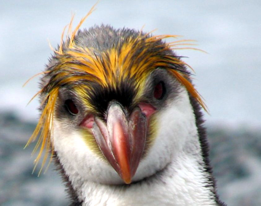 A royal penguin's face.